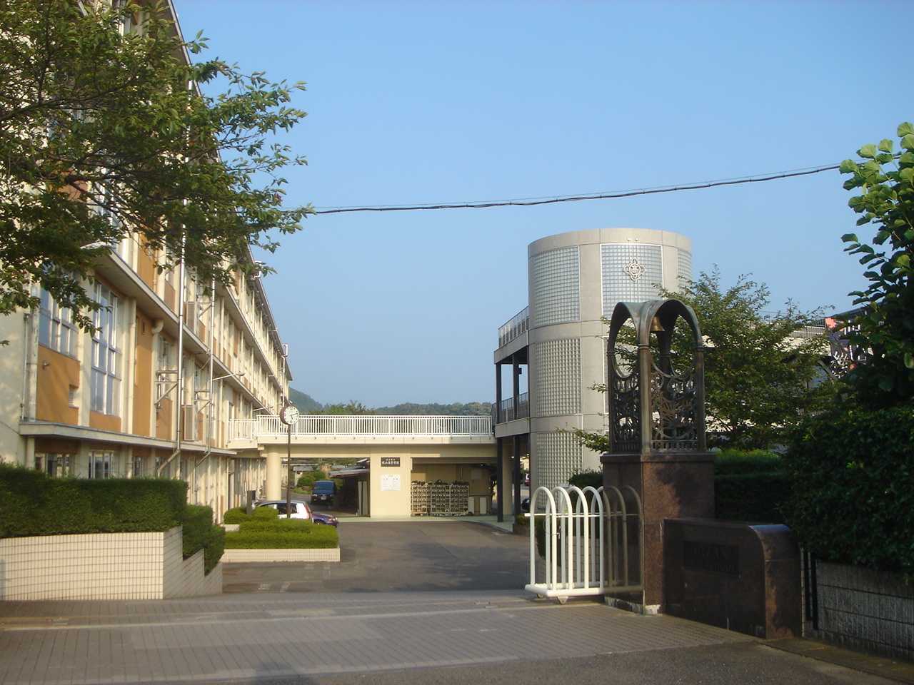 Gifu Prefectural Gizan High school（岐阜県立岐山高等学校）,Gifu,Gifu,Japan(岐阜県岐阜市)で撮影